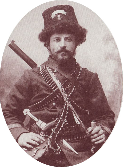 IMARO leader Pito Guli from Krushevo.